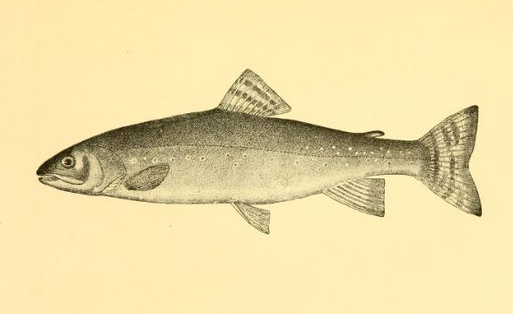 Salvelinus fontinalis agassizii on a Plate from the work Forest, lake and river; the fishes of New England and eastern Canada by Frank MacKie Johnson